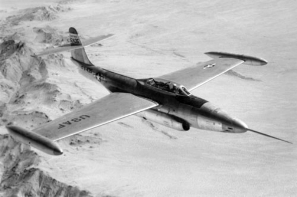 A U.S. Air Force Northrop F-89A Scorpion (s/n 49-2435) in flight.